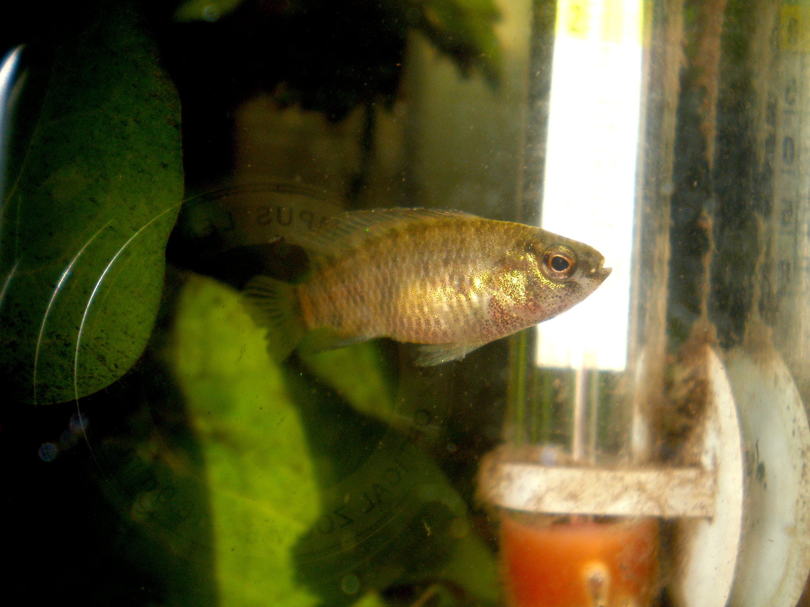 A female blue perch (Badis badis).